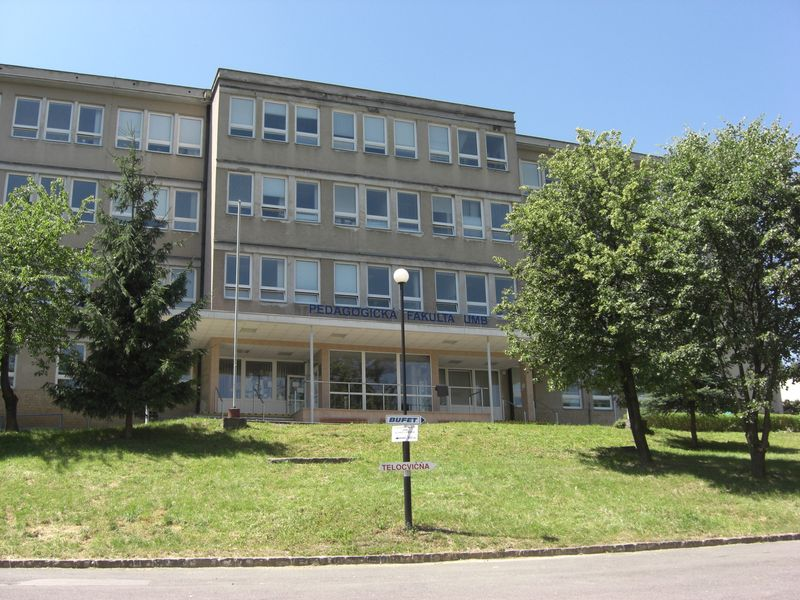 Faculty of Education of Matej Bel University in Banska Bystrica